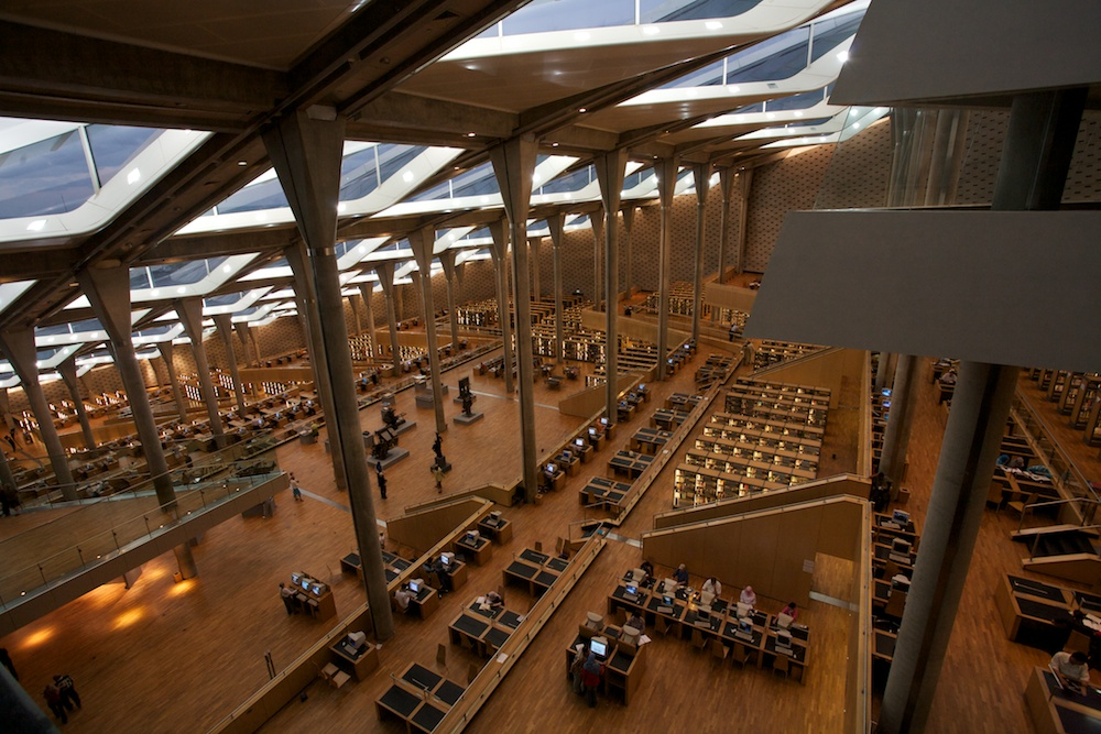 The Bibliotheca Alexandrina's interior, from near the top.